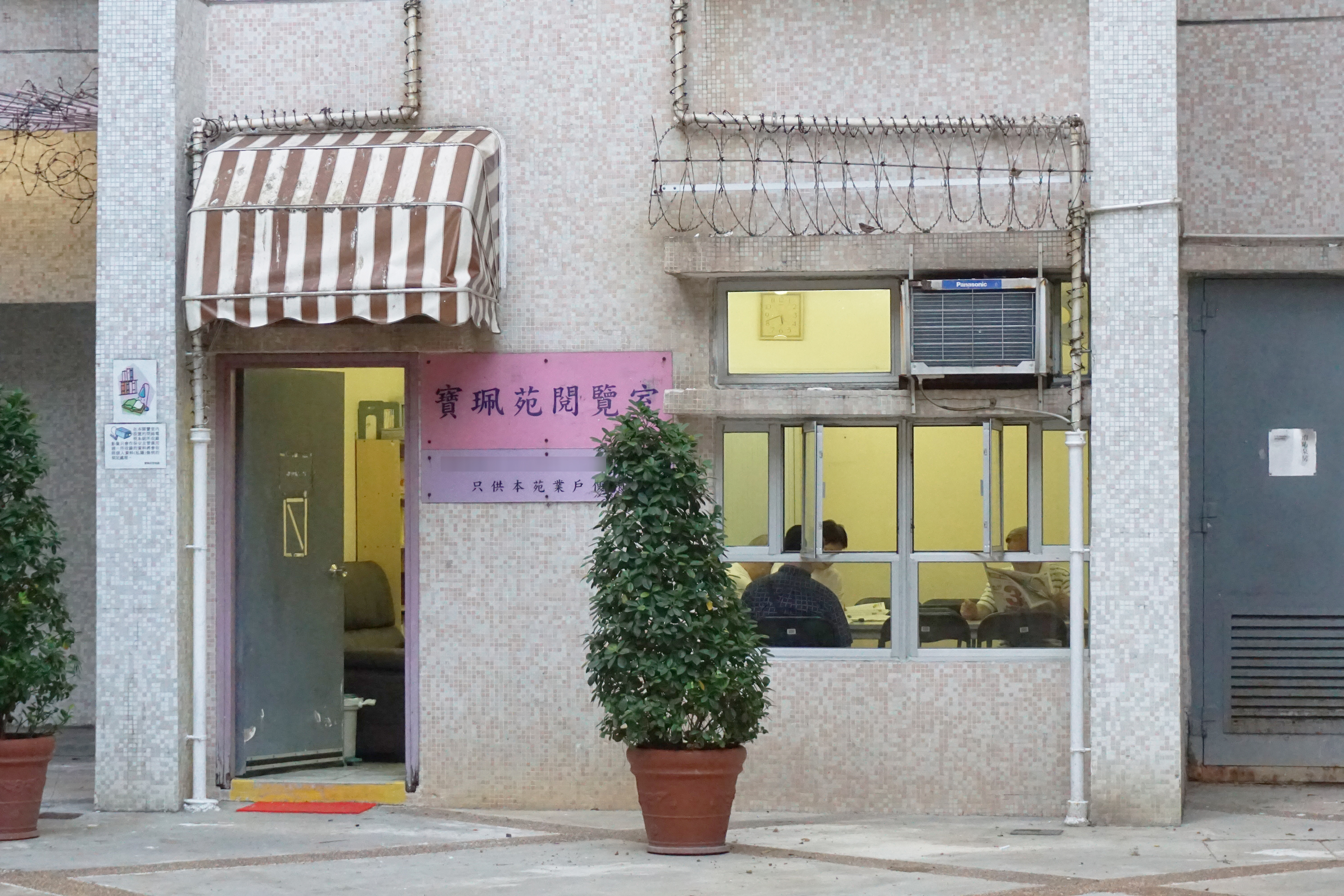 Po Pui Court in Kwun Tong, Hong Kong.